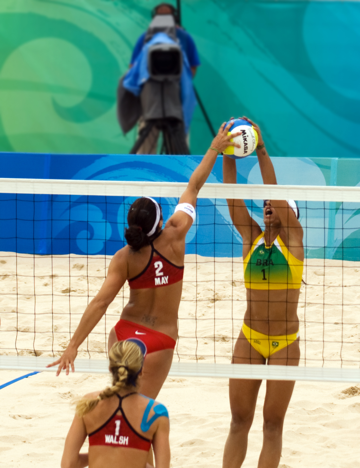 Beijing Olympics, Women's Beach volley, Quarterfinal: Kerri Walsh and Misty May-Treanor of the USA vs. Talita Antunes of Brazil